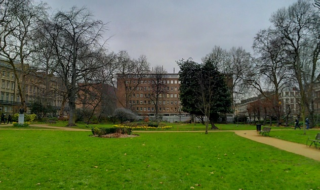 The UCL Institute of Archaeology as seen from Gordon Square, looking north. In Bloomsbury, London Borough of Camden.